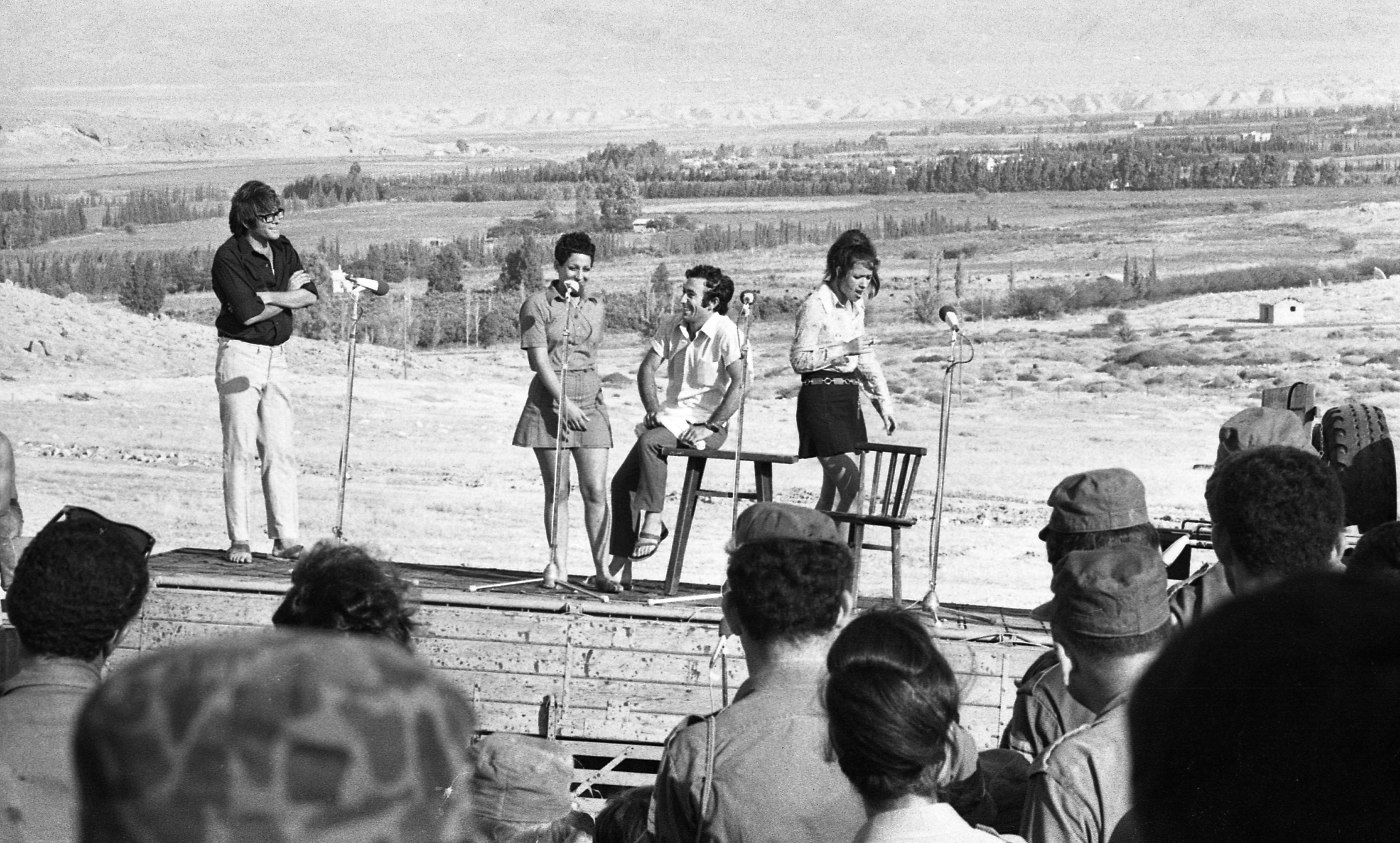 Tzatz Vetzatza performing in front of soldiers.